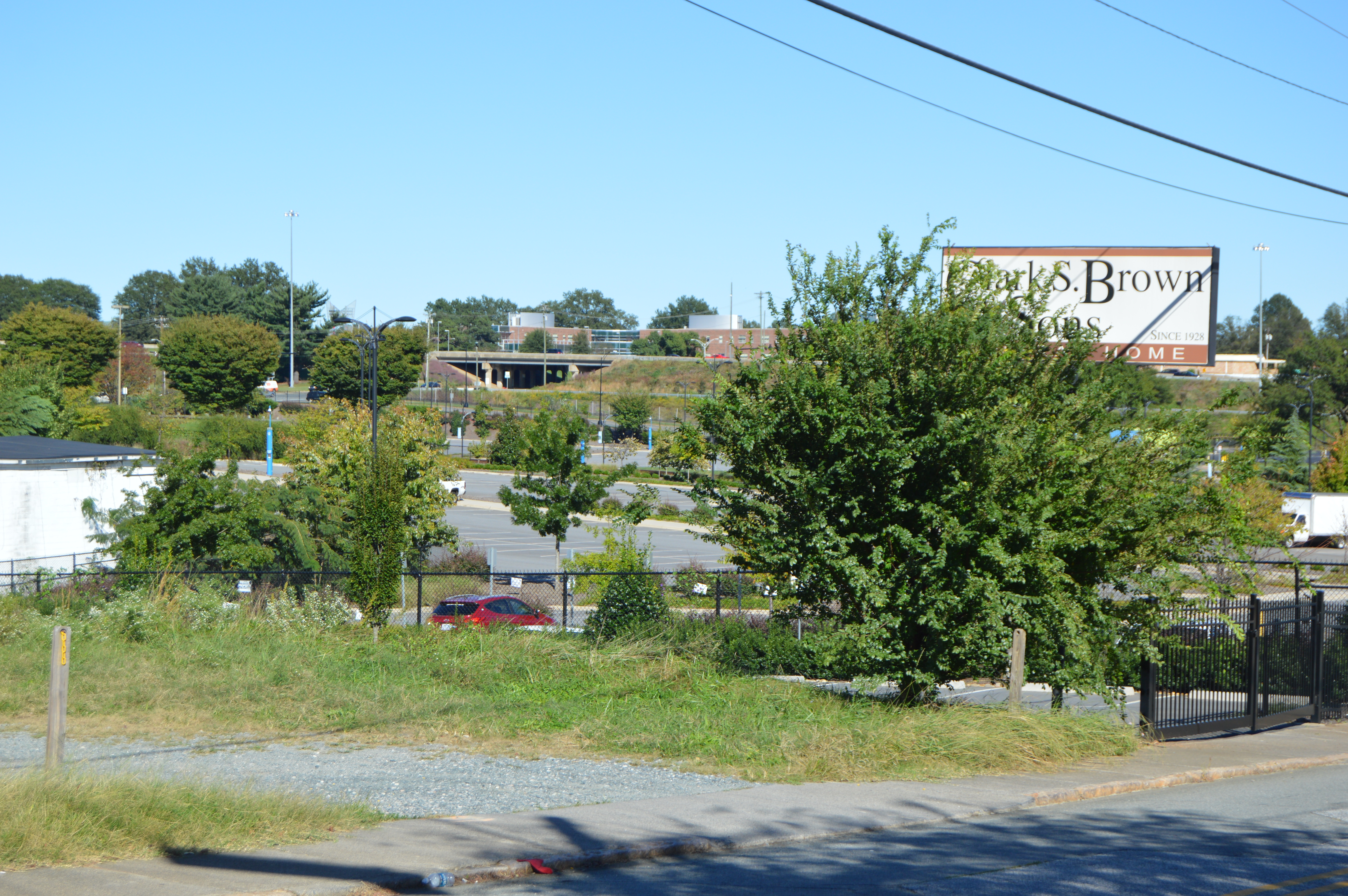 Overview of the site of the W.C. Brown Apartment Building, located on the northern side of the 300 block of E. Seventh Street in Winston-Salem, North Carolina, United States. The apartments were listed on the National Register of Historic Places in 1998, and although the building has been destroyed, it has not yet officially been removed from the Register.